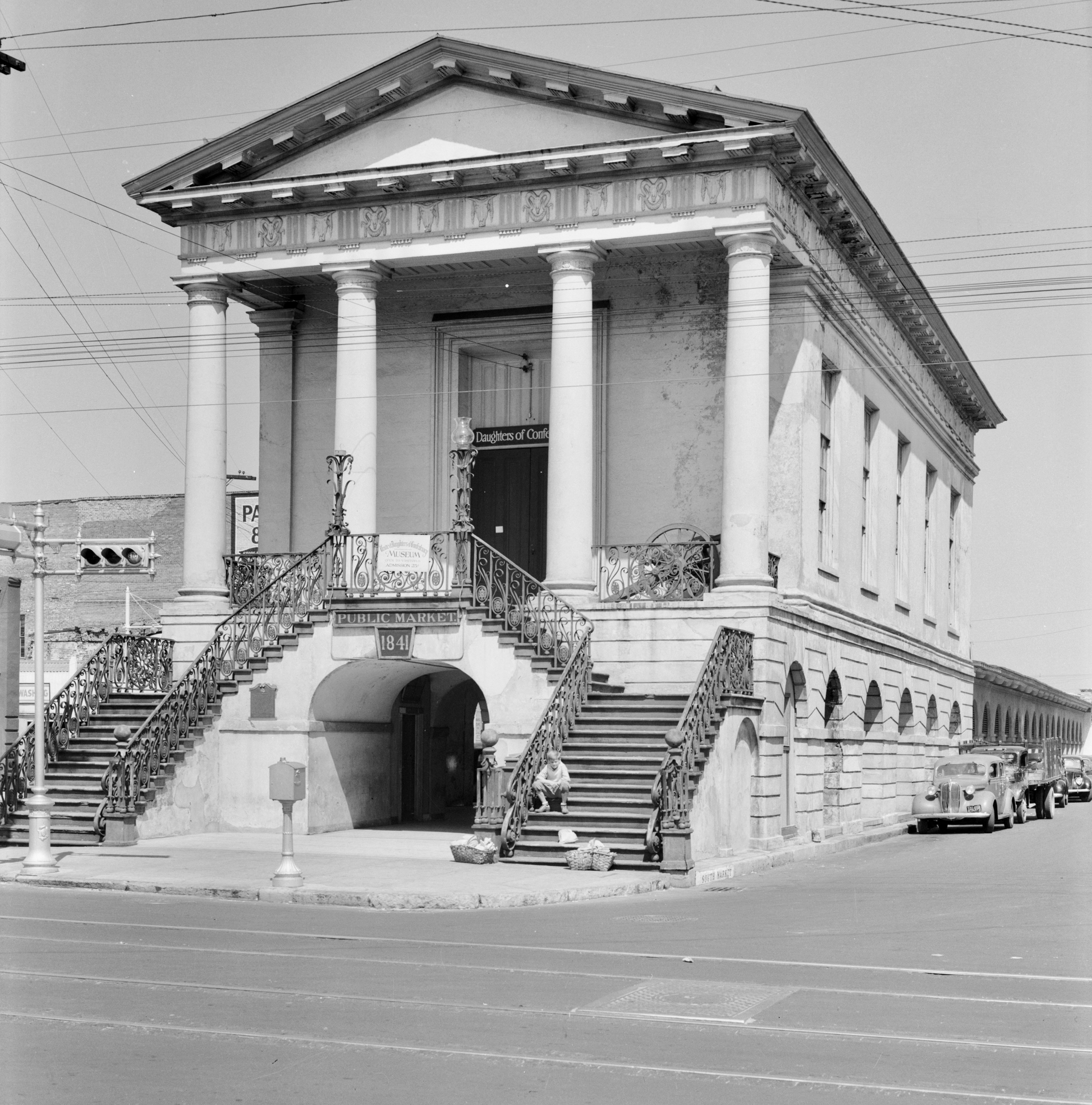 Market Hall (Charleston, South Carolina) from Historic American Buildings Survey - (cropped)